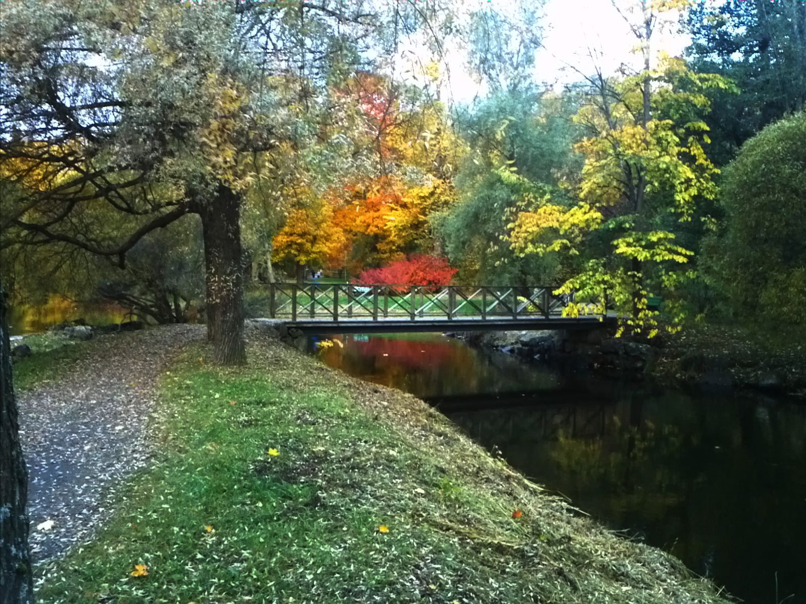 Gavleån running through Boulognerskogen in Gävle, Sweden in October 2013.